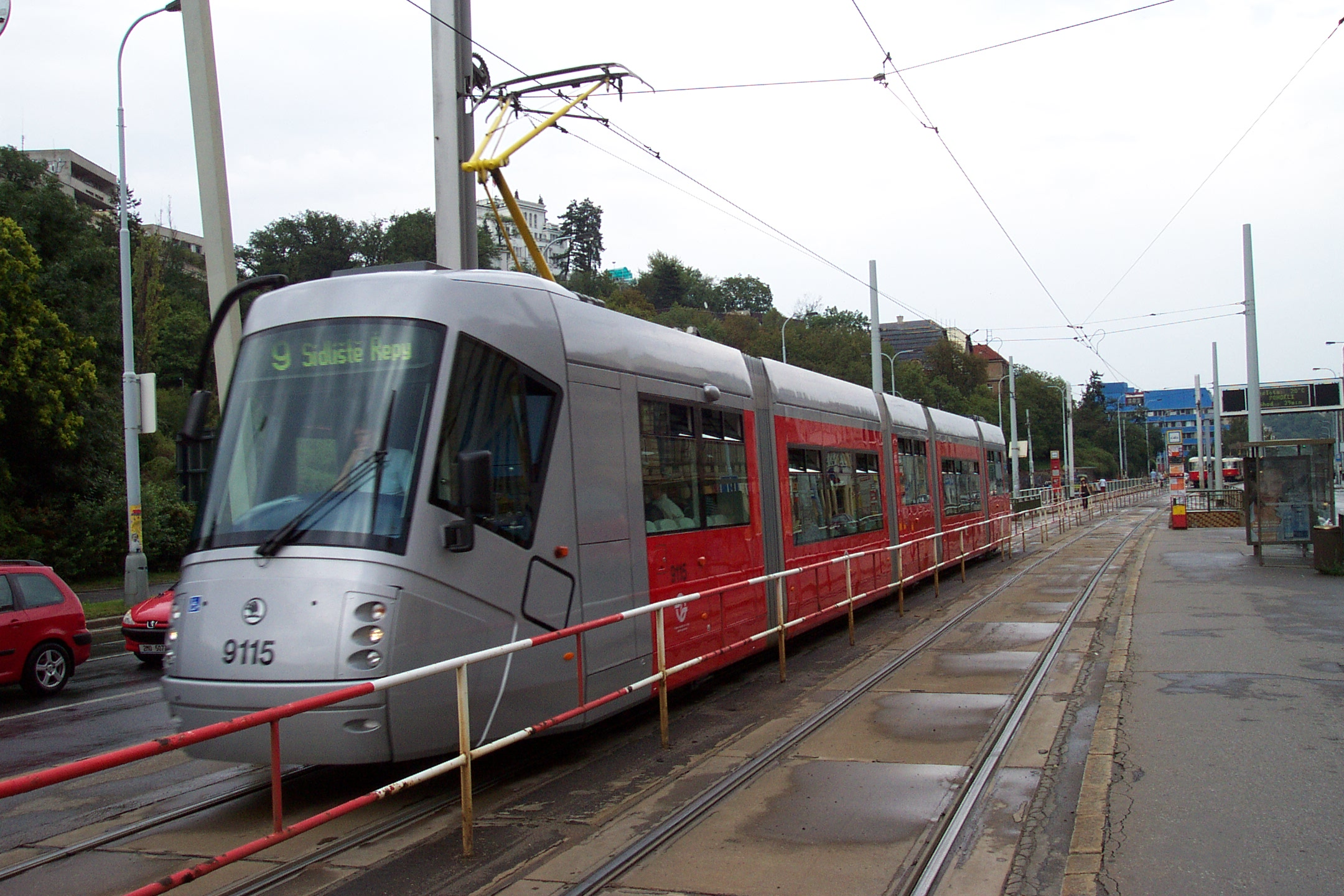 Tram Škoda 14T in Košíře.